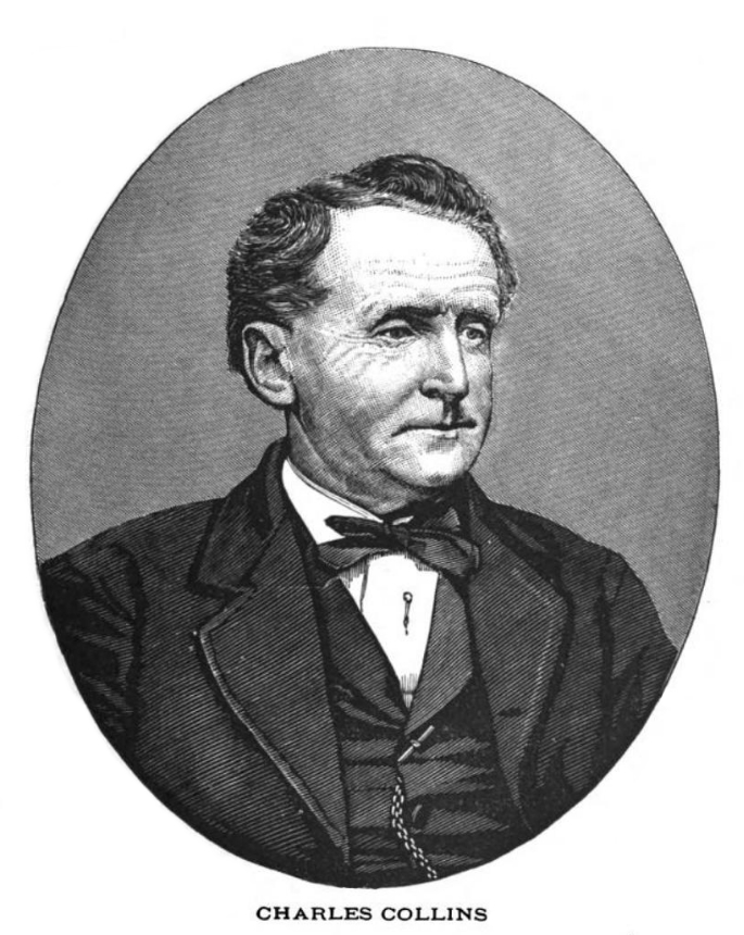 Engraving of American civil engineer Charles Collins. Collins was the chief bridge engineer for the Lake Shore & Michigan Southern Railway in the 1870s.